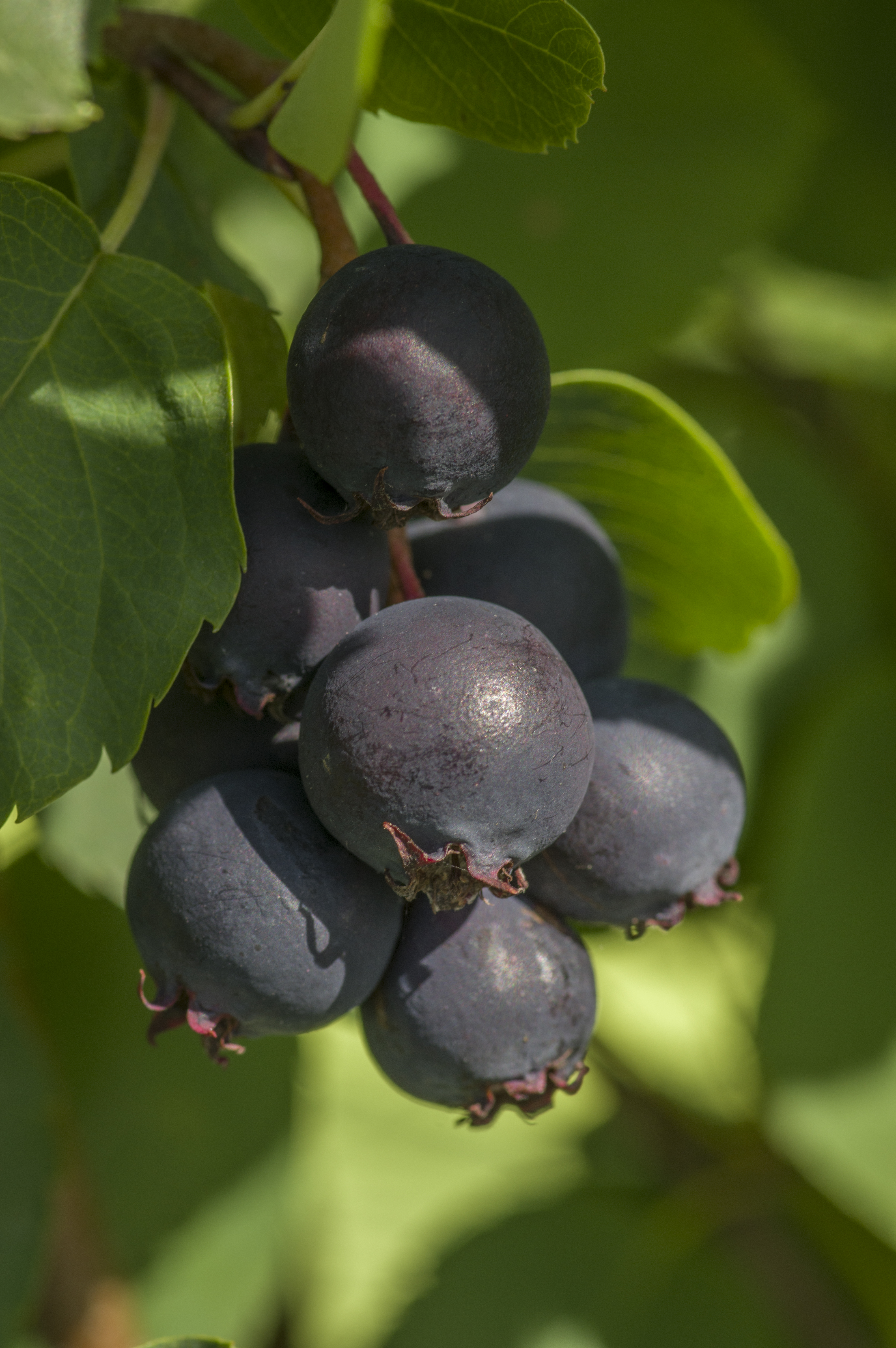 Amelanchier alnifolia 'Pembina'